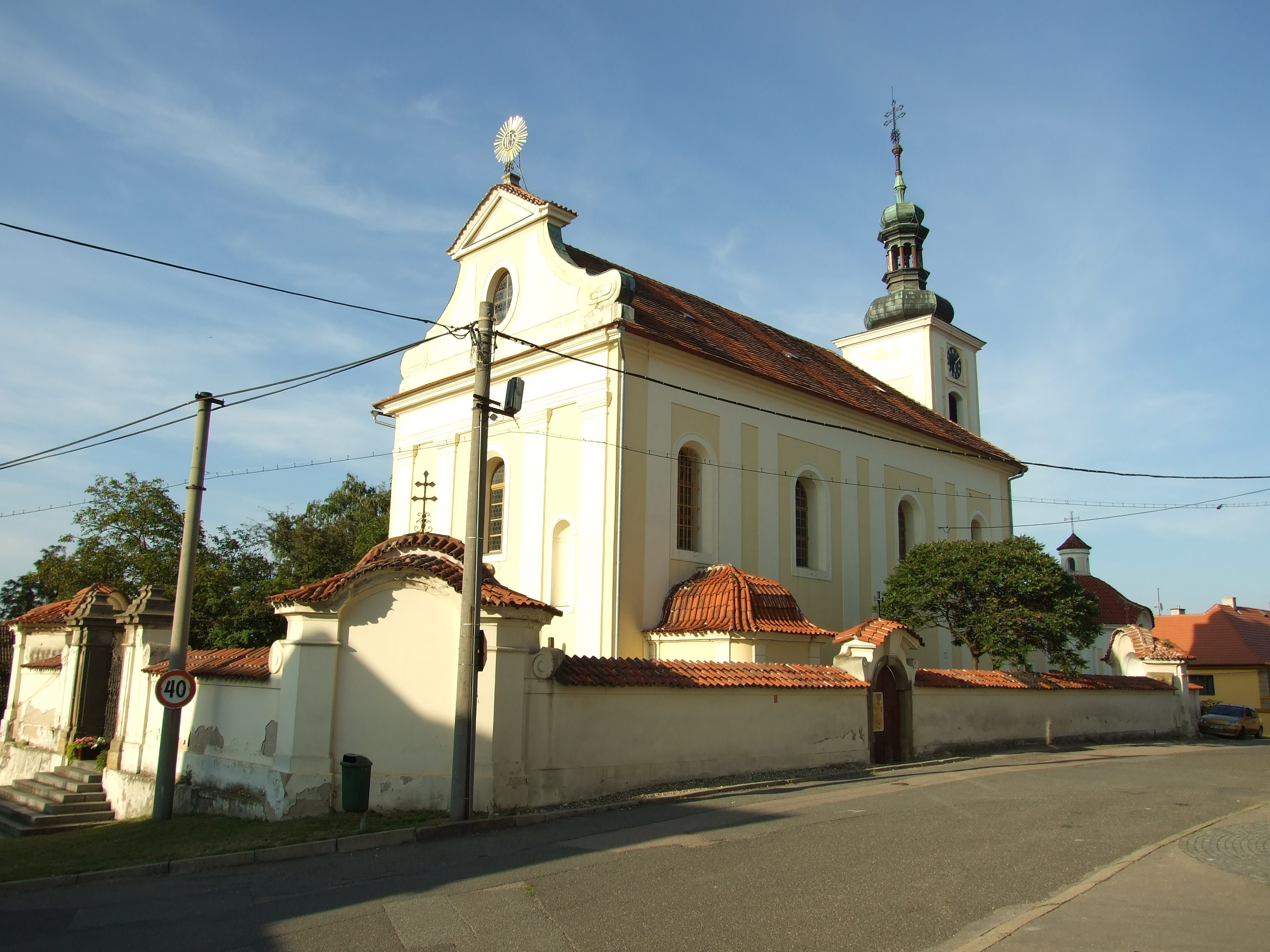 St. Procopius church in Středokluky, Prague-West District (near Prague and Kladno), Czech Republichelp